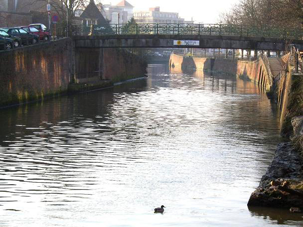 Buda Brigde Kortrijk